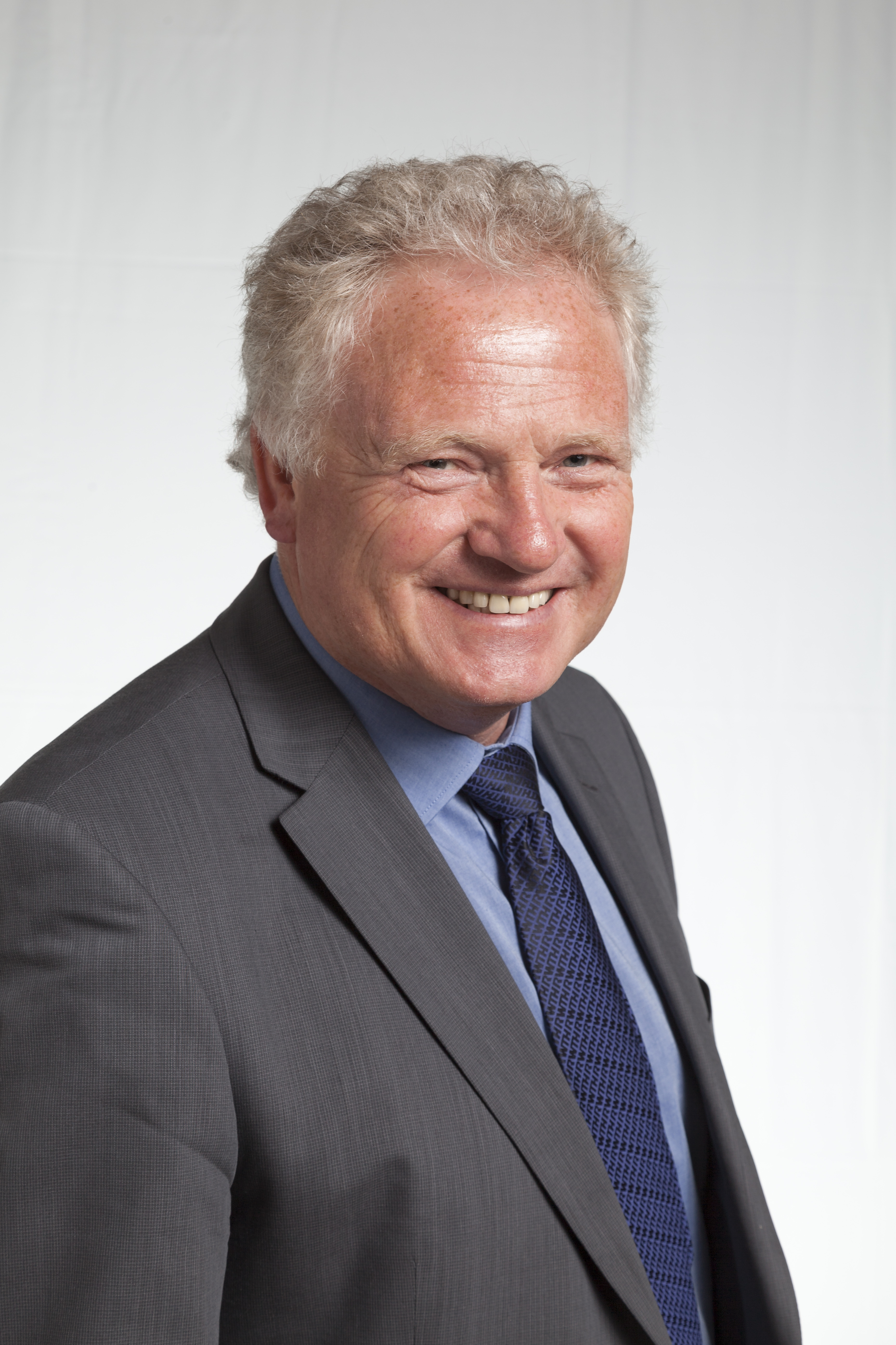 Johan Einar Hustad, Pro-Rector of innovation and professor at the Norwegian University of Science and Technology, Trondheim. Norway